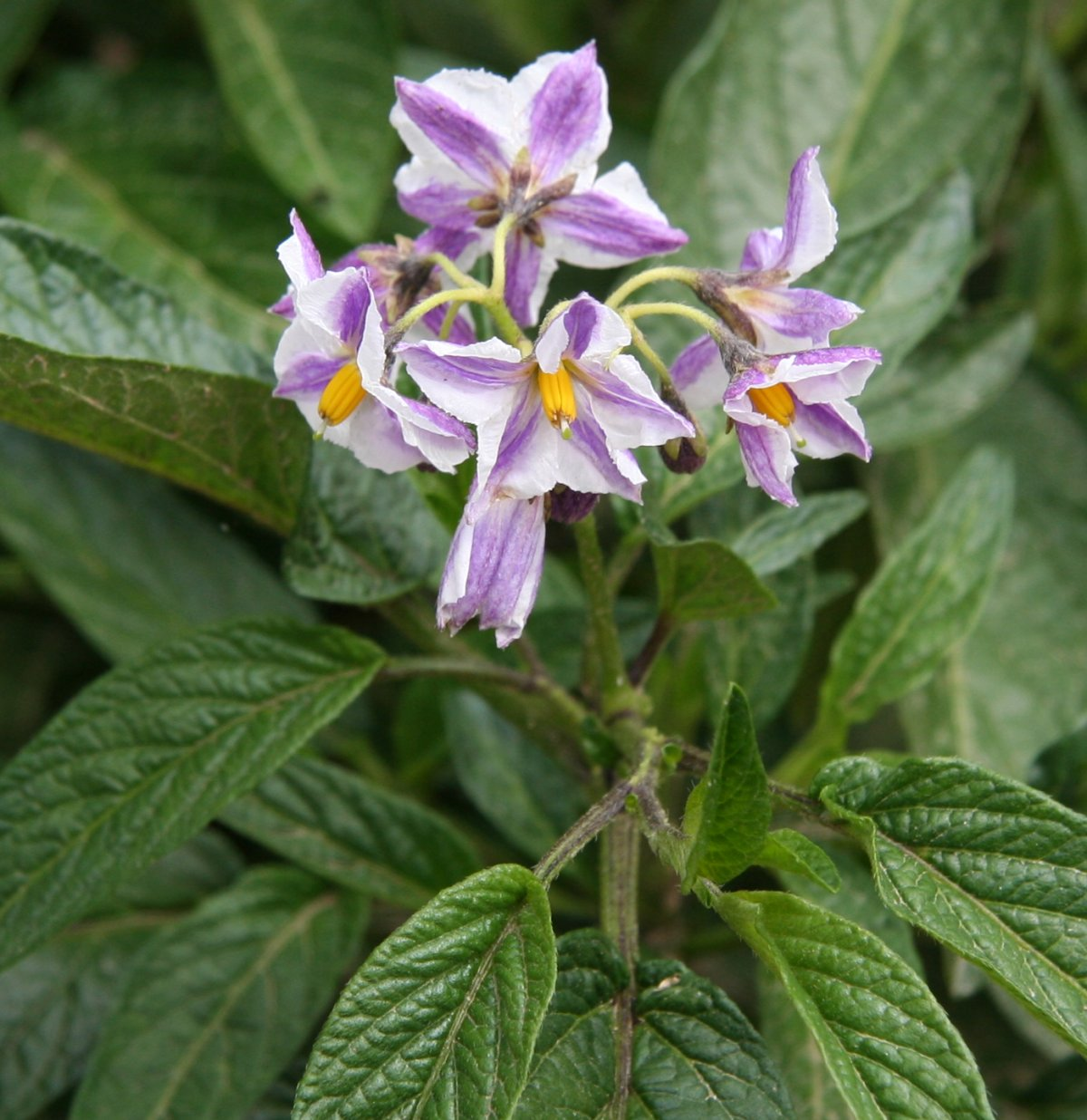 Solanum muricatum Flower